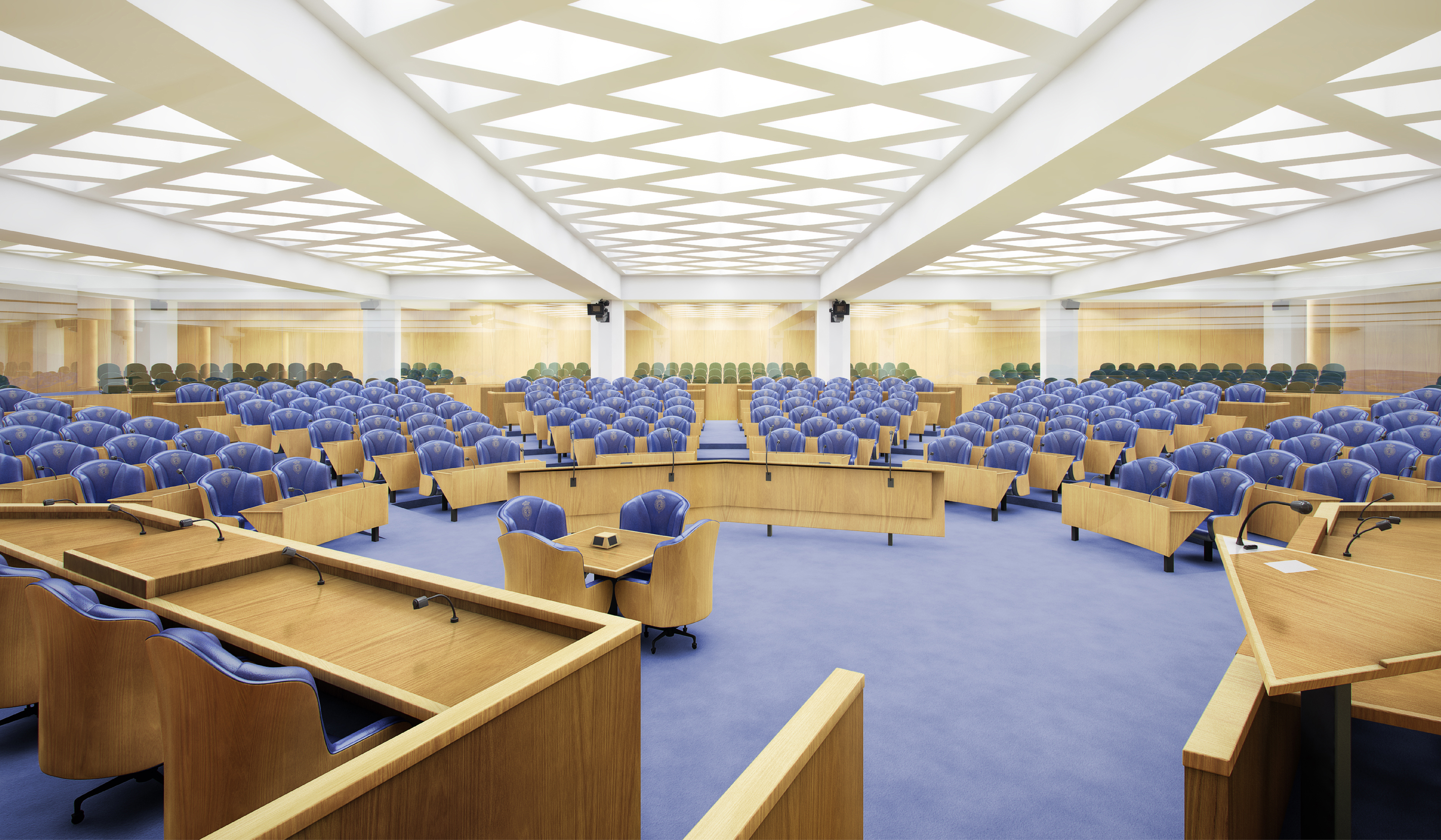 Impression 1 Plenary Hall of the parliament. When parliament temporarily moves to the current Ministry of Foreign Affairs, the blue seats in the House of Representatives and the green benches of the Senate can just be brought along. Thus the familiar image of the meeting halls will remain. The Senate is scheduled in a conference hall, the House of Representatives in the loading and unloading area. With artists impressions it has been visualized what the rooms could look like.